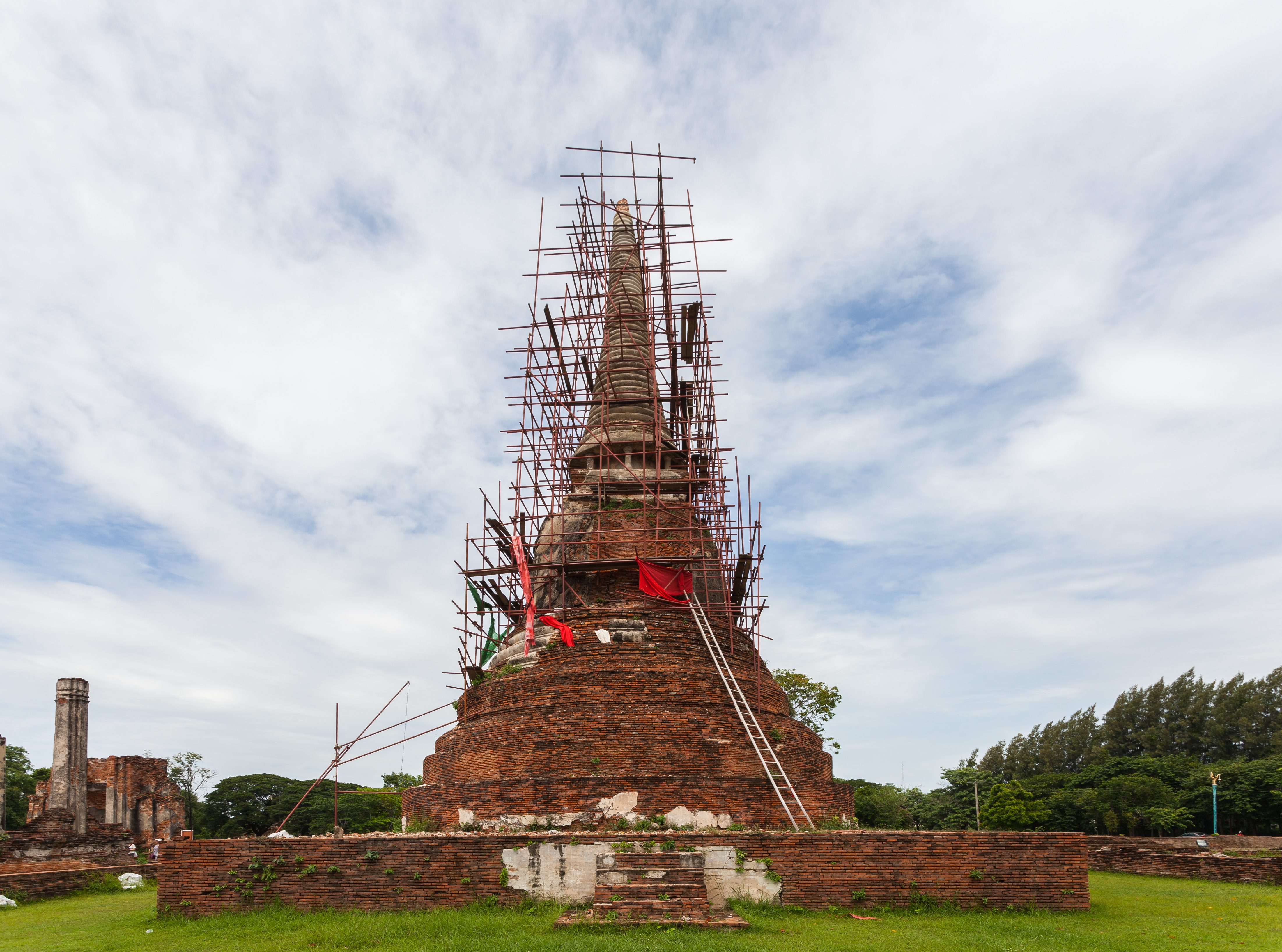 Mahathat Temple, Ayutthaya, Thailand